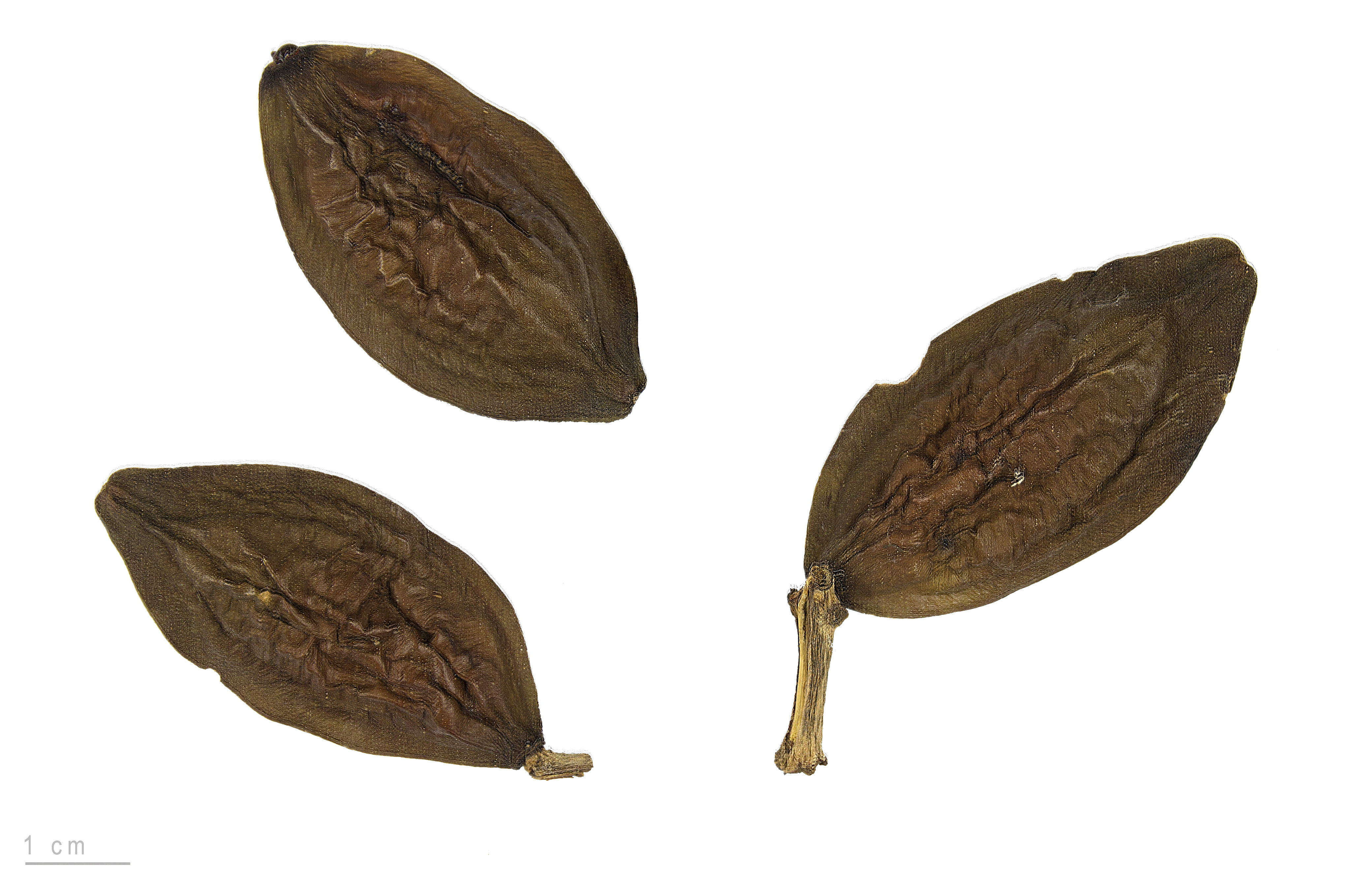 Terminalia catappa, Bengal almond, fruits